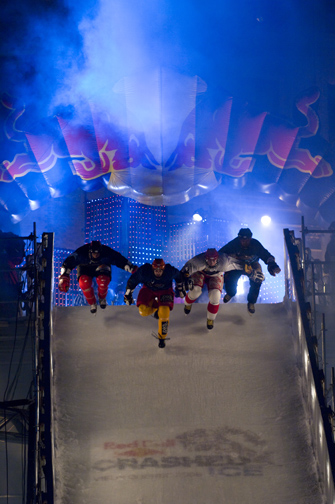 Red Bull Crashed Ice 2008